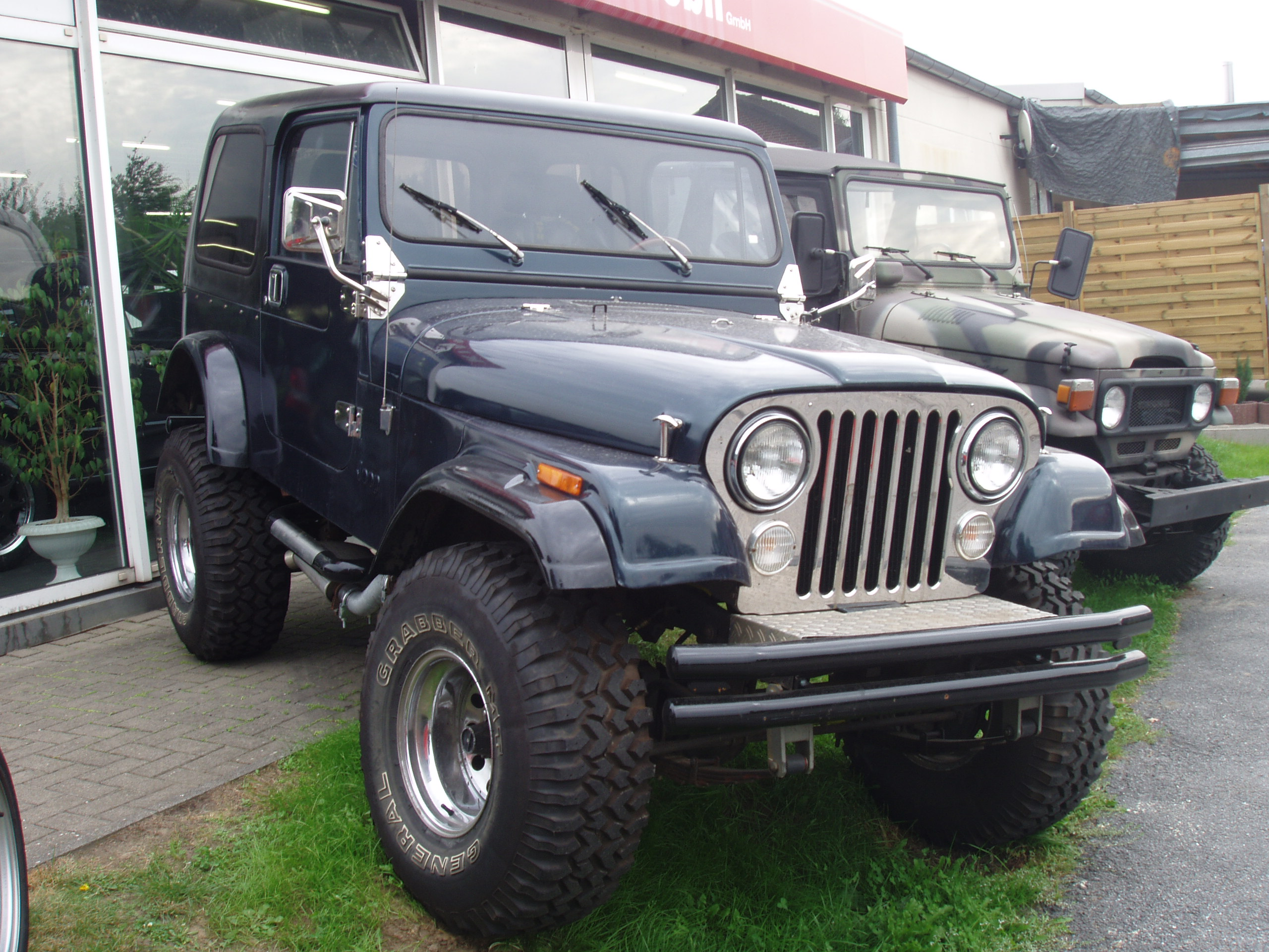 Jeep CJ 7